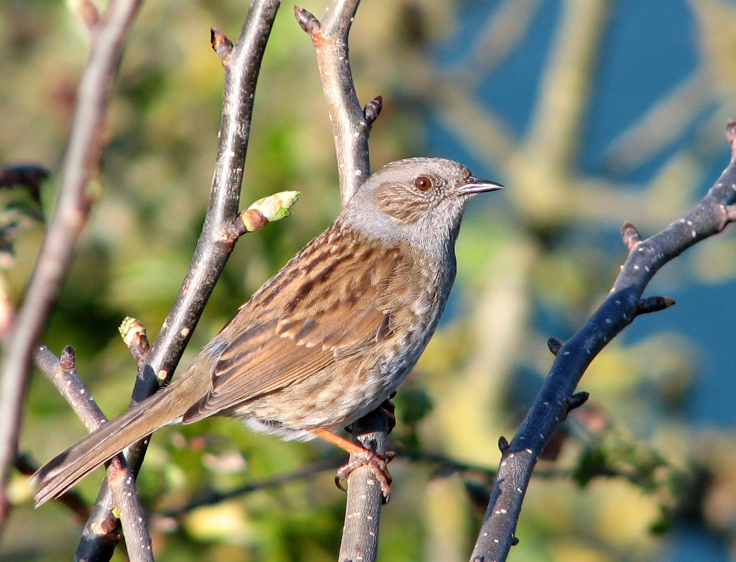 A Dunnock, Prunella modularis, photographed in Torquay, Devon, England in April 2008.